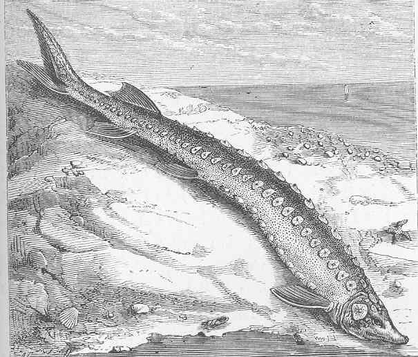 Common Sturgeon (Acipenser sturio) Subject: Sturgeons, Acipenser Tag: Fish